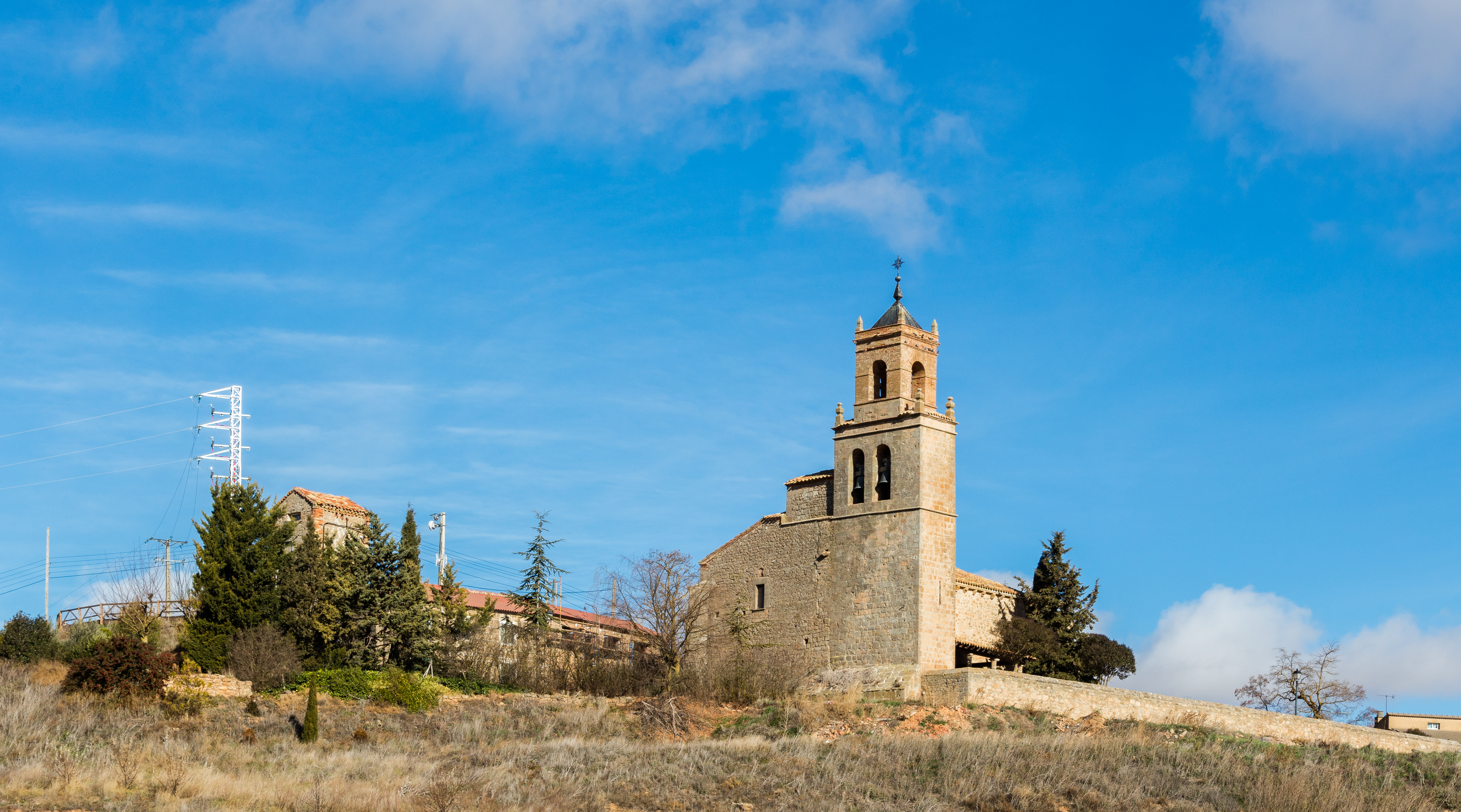 Nolay, Soria, Spain